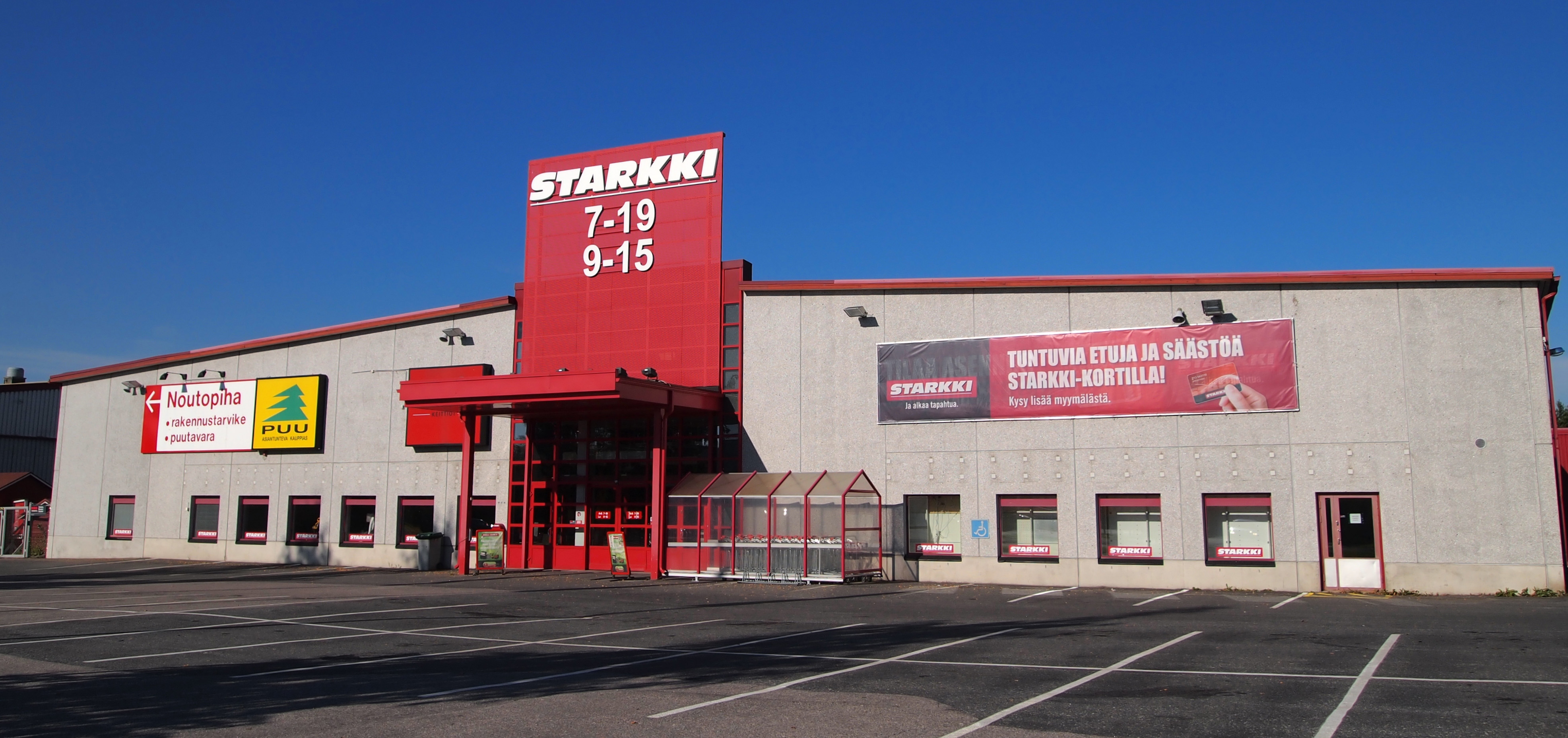 Starkki building in Jyväskylä. This photograph was taken with an Olympus E-PL1